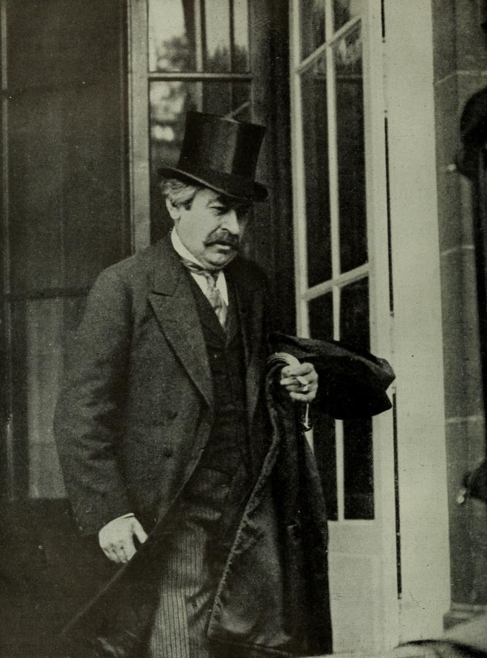 Picture of Aristide Briand